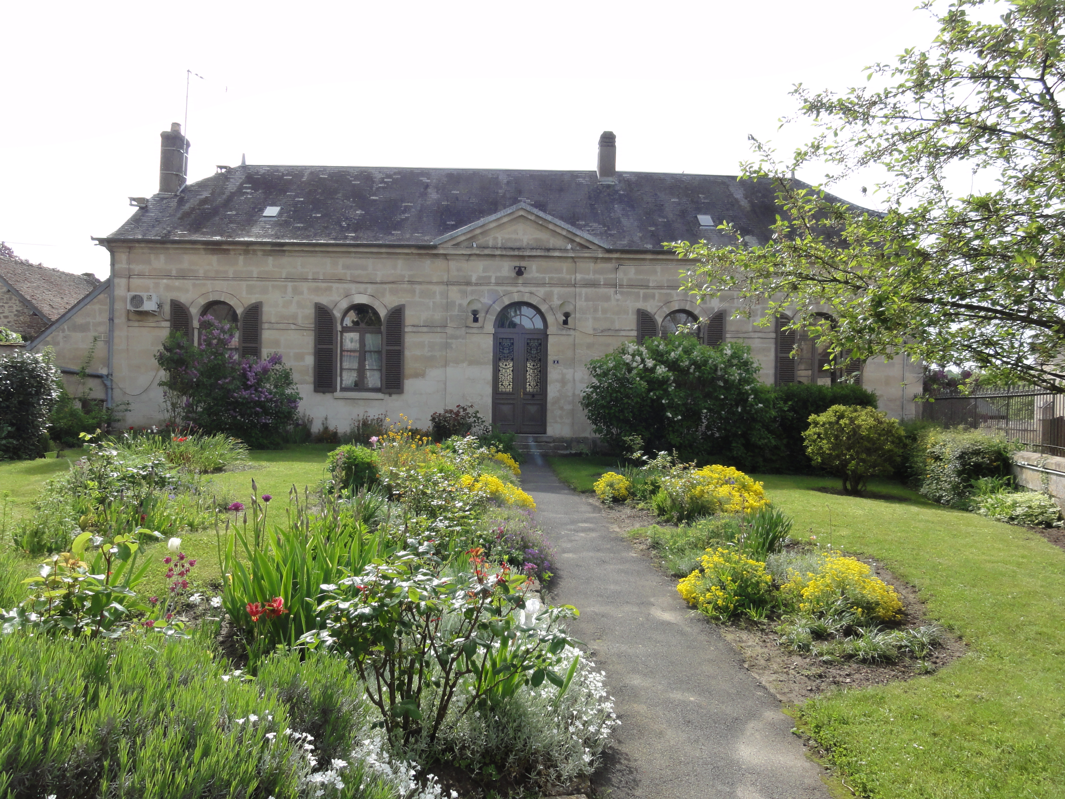 Montchâlons (Aisne) mairie